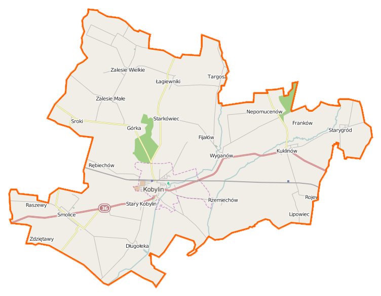 Map of Gmina Kobylin, Poland This map of Kobylin (gmina) was created from OpenStreetMap project data, collected by the community. This map may be incomplete, and may contain errors. Don't rely solely on it for navigation. Border coordinates51.795517.1205←↕→17.378751.6715